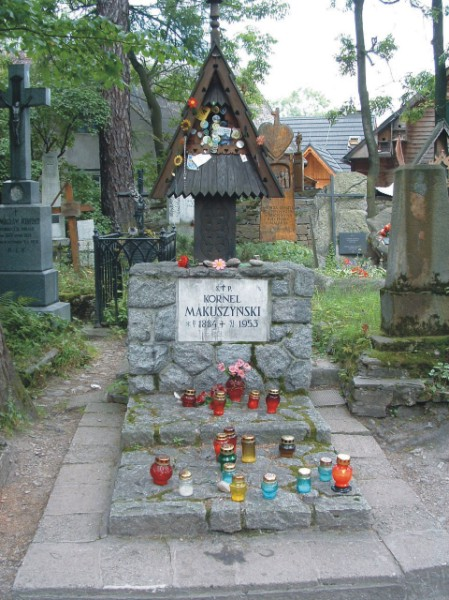 Grave of Kornel Makuszyński, photo by Jadwiga